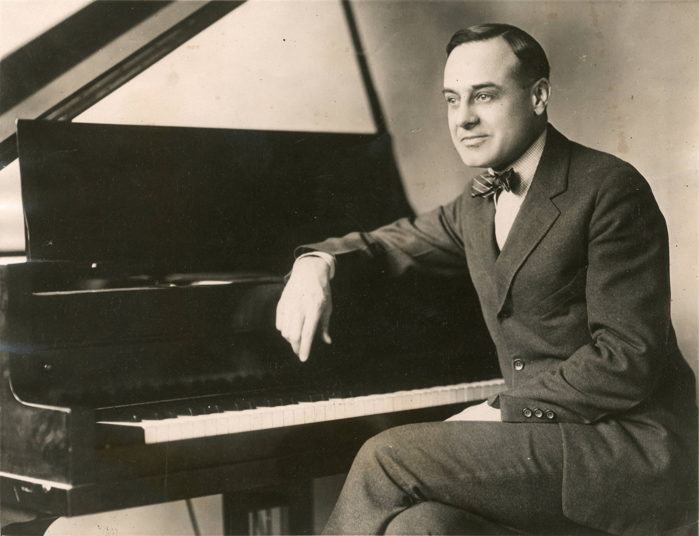 Song Composer Harry Archer. Subjects: miscellaneous